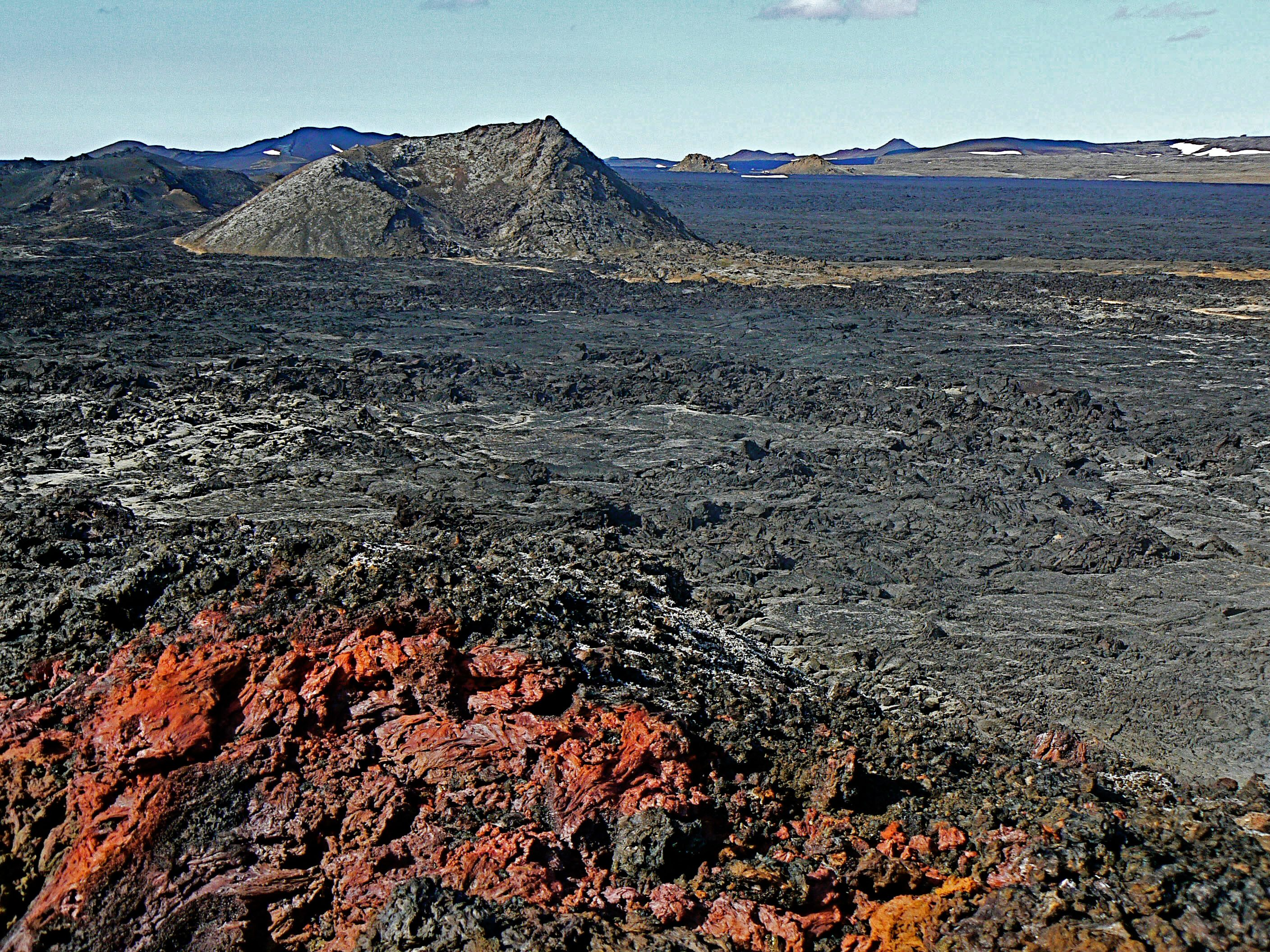 Fissure vent